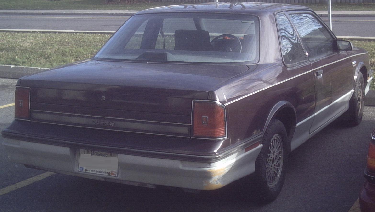 1985-1988 Oldsmobile Cutlass Ciera coupe photographed in Montreal, Quebec, Canada.